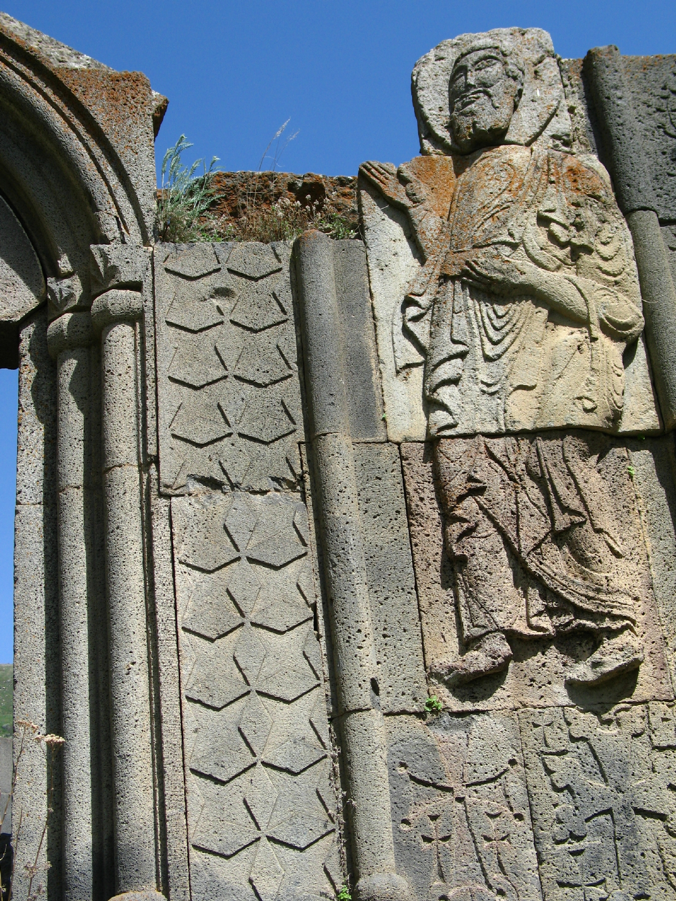 Աղջոց վանք 99.1/1.1